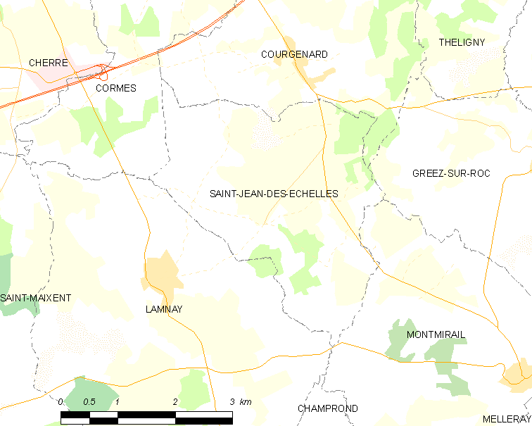 Map of French municipality